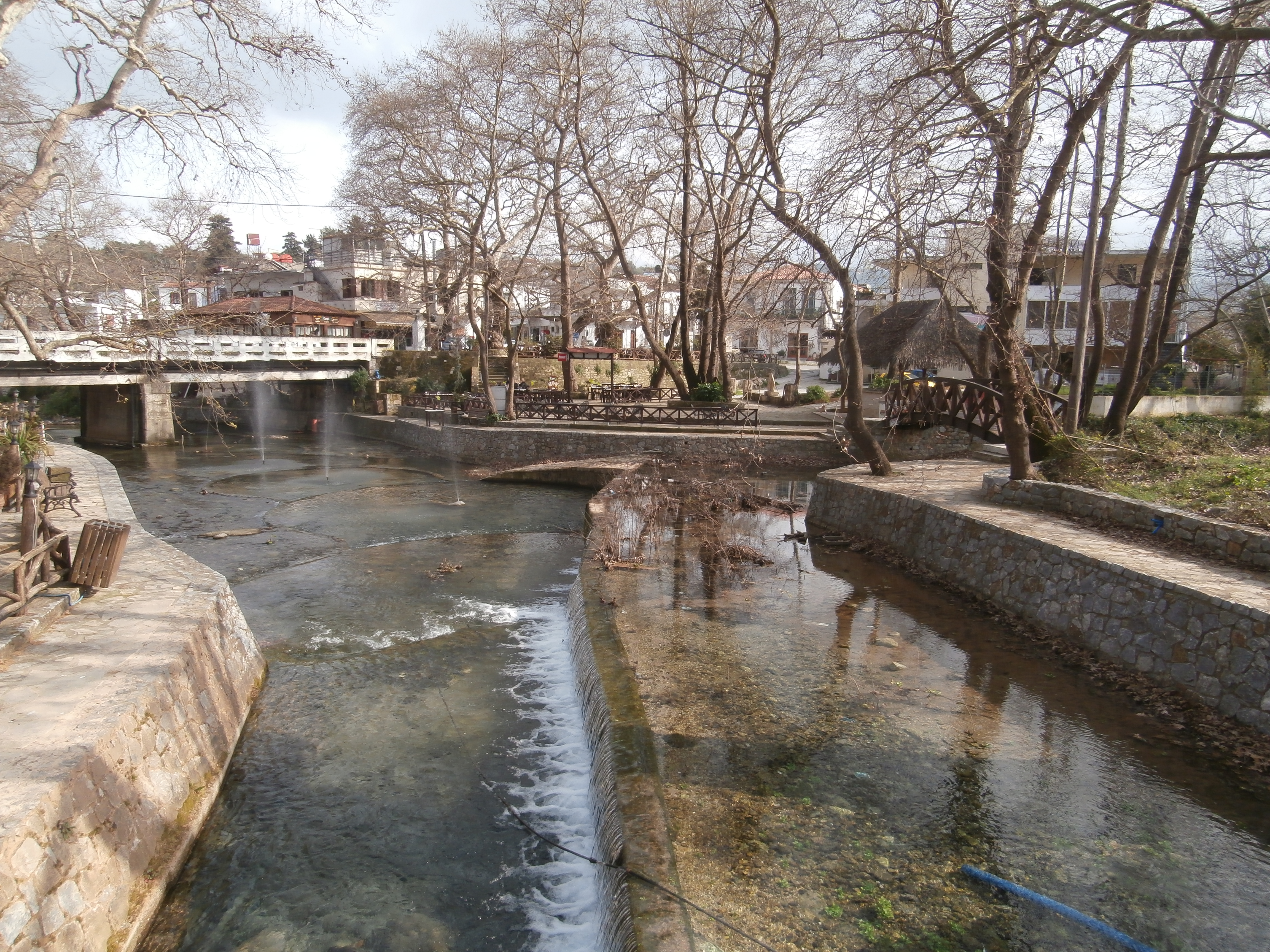 River in Vryses, Apokoronos municipality